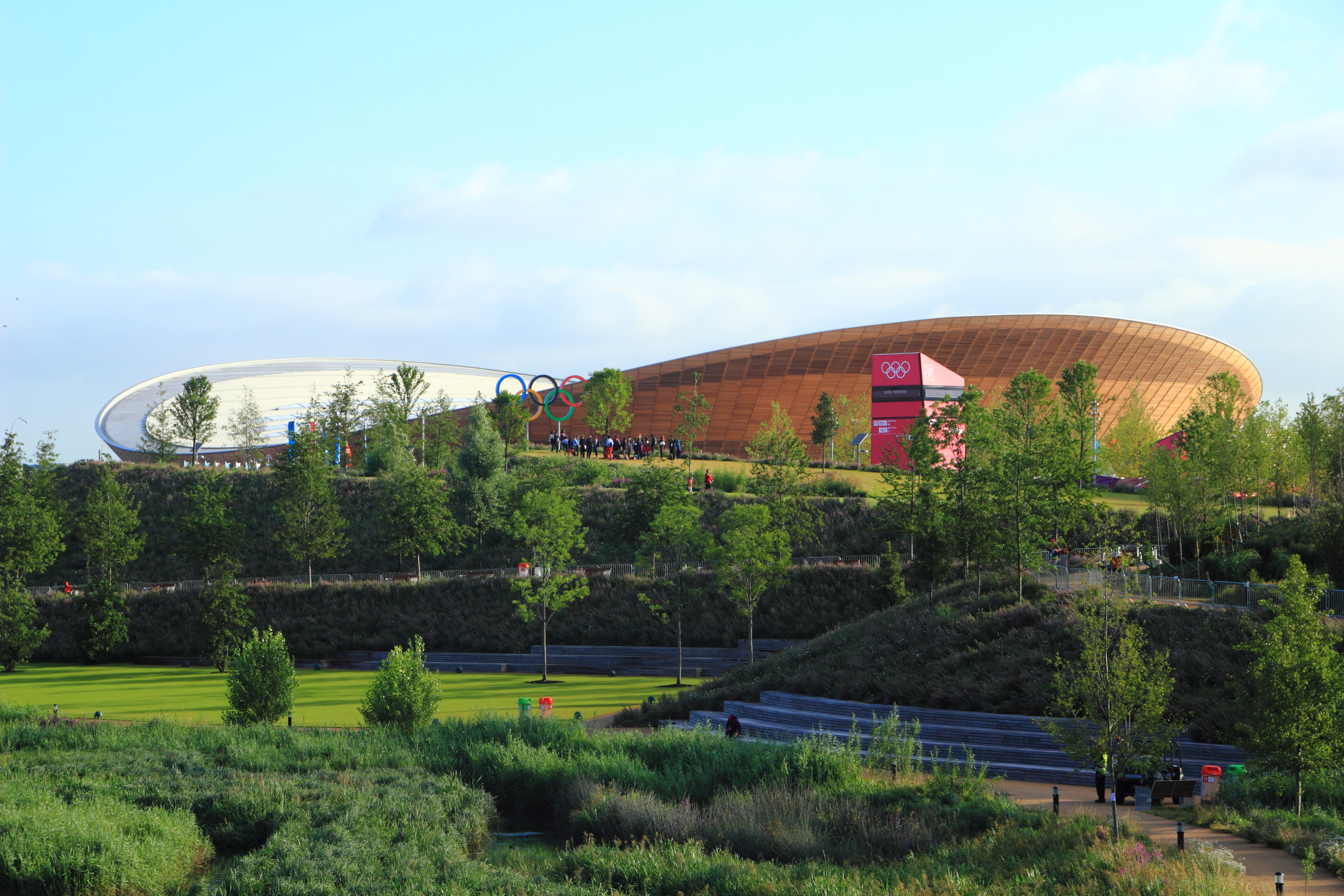 London 2012 Olympic Velodrome designed by Hopkins architects and completed in February 2011 well before th start of the London 2012 Summer Olympic Games. This really is beautiful piece of architecture up close. A legacy to be pround of from the Olympics and lets hope it will create a whole new generation of world beating cyclists. Team GB